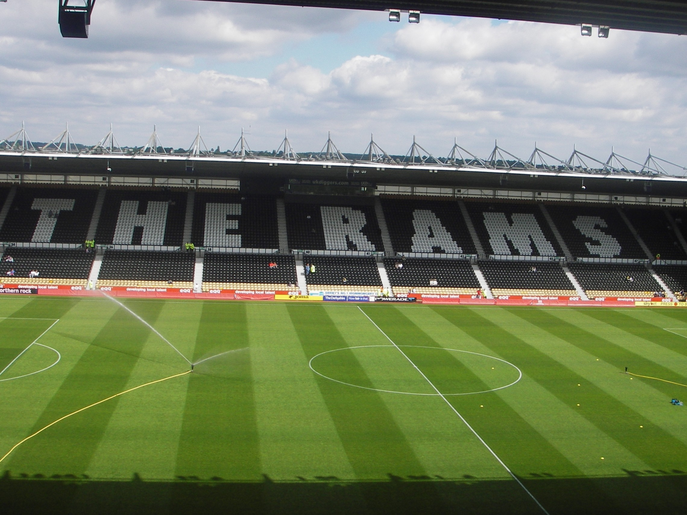 The East Stand.